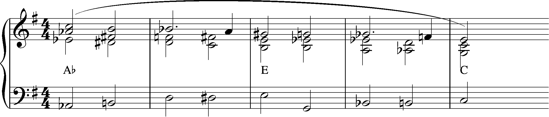 Sleep music form act 3 of Wagner's opera Die Walküre